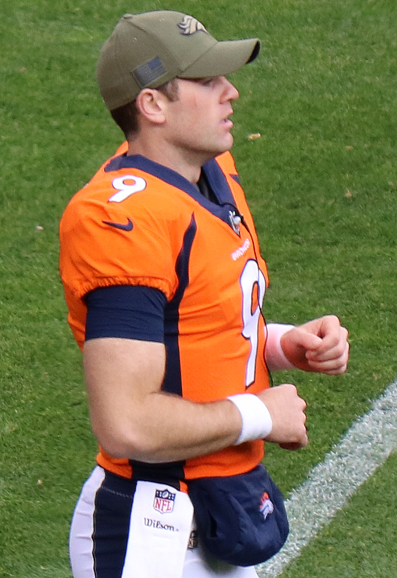 Kevin Hogan, a National Football League player.